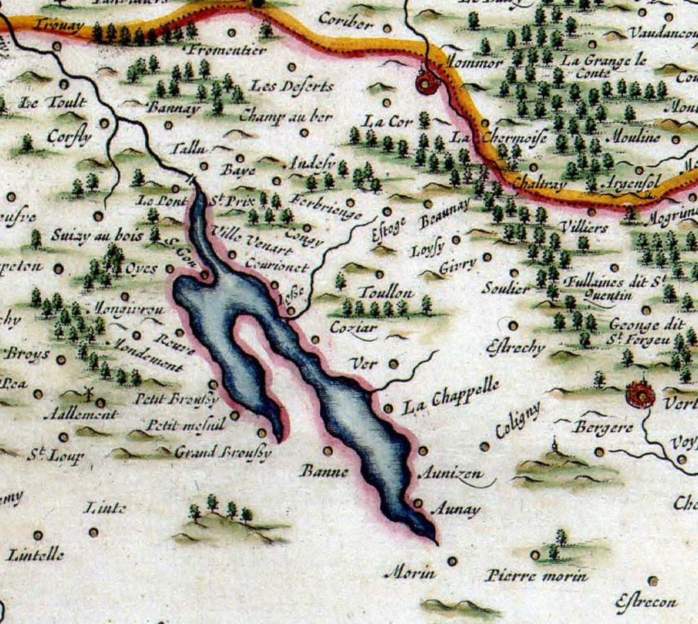 A map of the French episcopate Reims and the region Rethel was published by Willem Jansz. Blaeu (1571-1638) and Joan Blaeu (1598-1673). The map was composed using two detailed maps by the French cartographer Jean Jubrien, which were published earlier by Henricus Hondius II (1597-1651) and Melchior Tavernier . The extent of the two original maps is clearly visible in the density of details on Blaeus map.